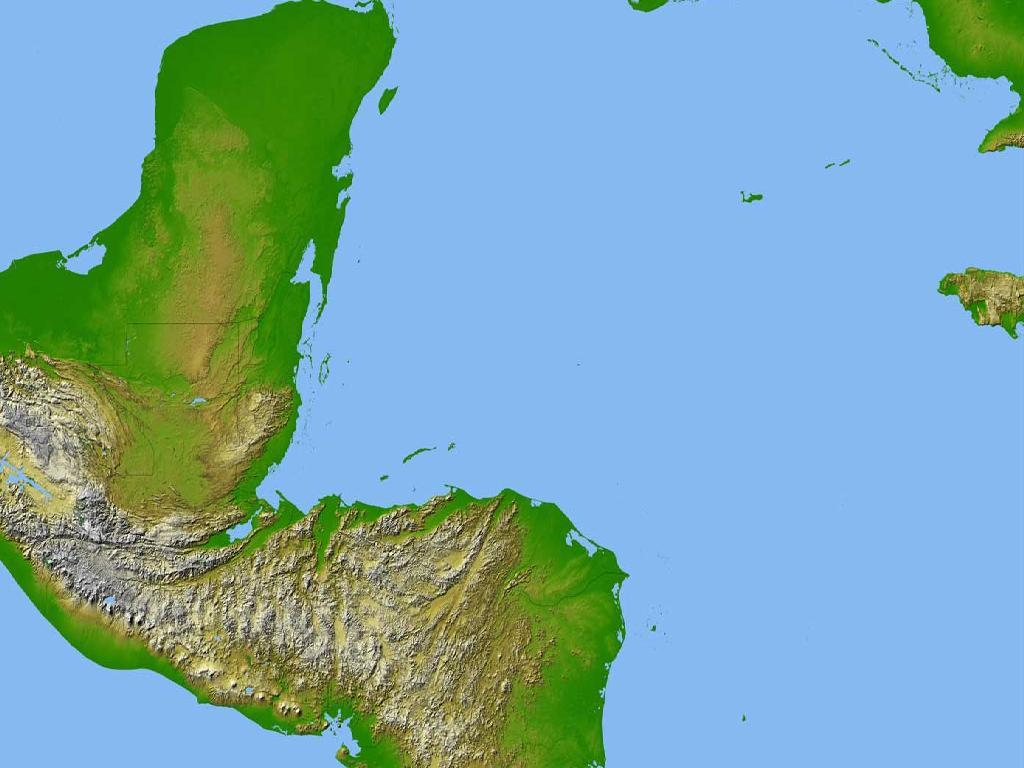 Satellite radar topography image of a portion of Central America. Due to persistent cloud cover, obtaining conventional high-altitude photos of this region is extraordinarily difficult. Radar's ability to penetrate clouds and make 3-D measurements allowed scientists to generate the first complete high-resolution topographic map of the entire region. All of Guatemala, Belize, El Salvador, and Honduras are visible on this image, as well as a considerable portion of southern Mexico (the Yucatan Peninsula). Image courtesy of NASA/JPL/NGA.